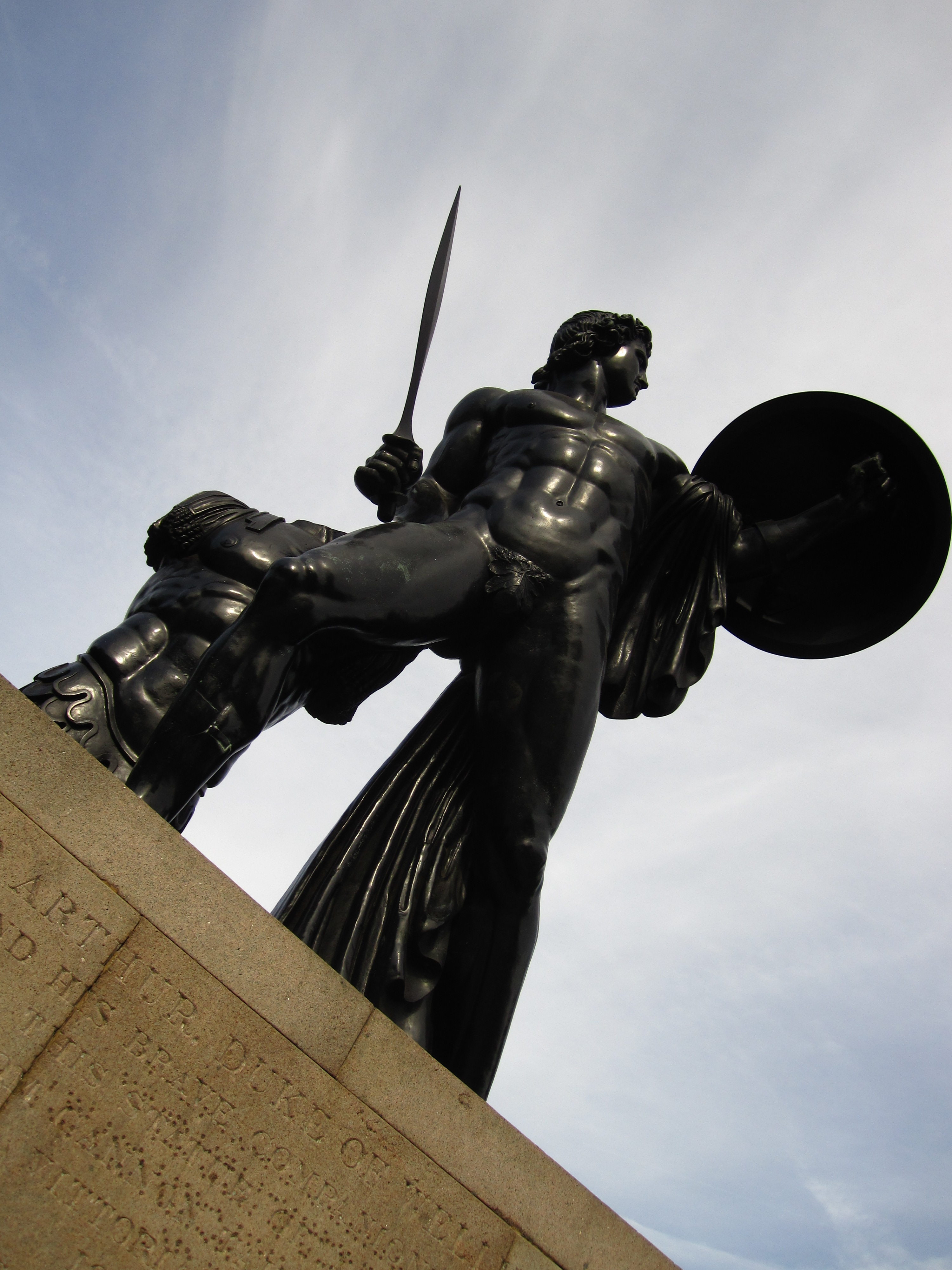 Achilles Statue in Hyde Park